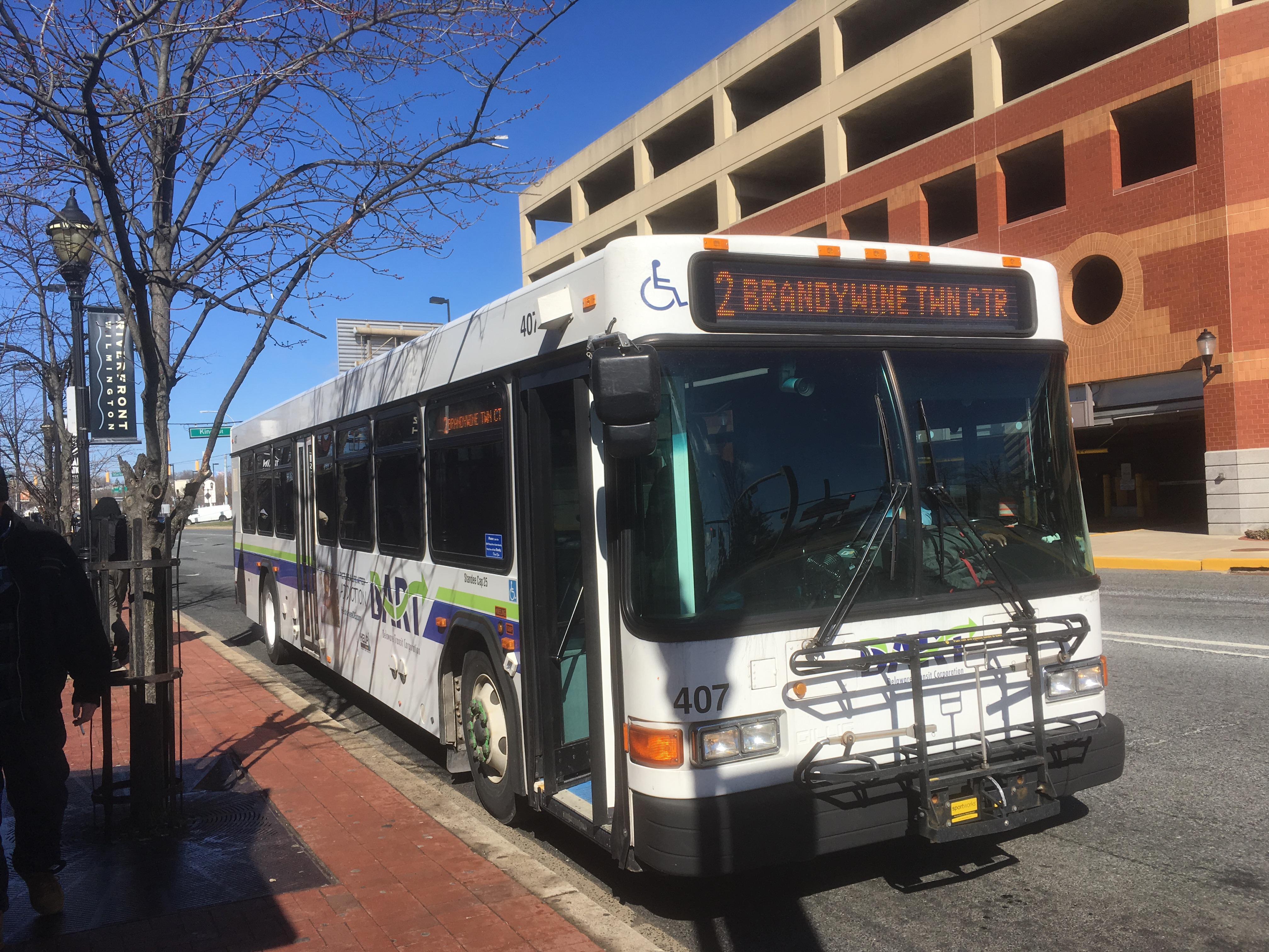 DART First State Gillig Advantage bus #407 on the Route 2 line at the Wilmington Station in Wilmington, Delaware